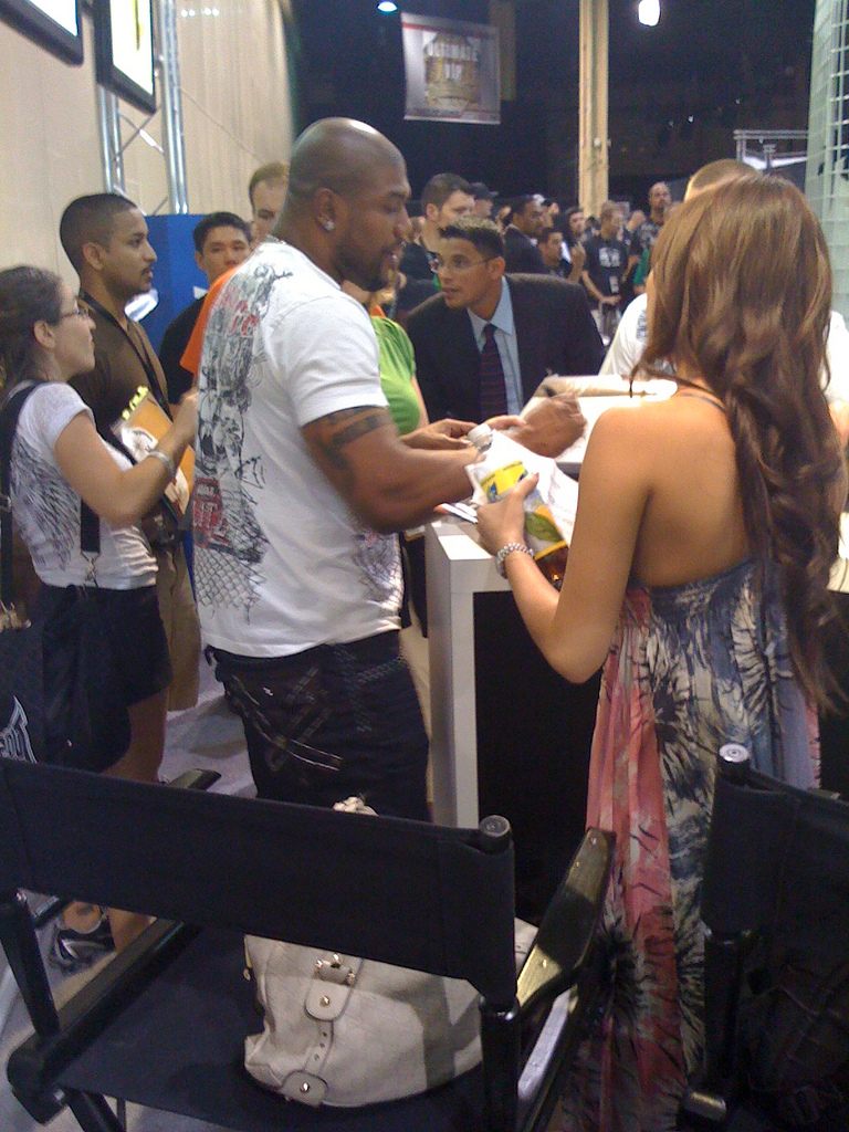 Rampage Jackson with fans - UFC 100 Fan Expo - Mandalay Bay Casino, Las Vegas